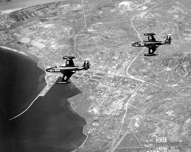 U.S. Navy McDonnell F2H-2 Banshee jet fighters from Fighter Squadron 62 (VF-62) "Gladiators" in flight over Hungnam, North Korea, on 26 July 1953, the day before the Korean armistice took effect. VF-62 was assigned to Carrier Air Group 4 (CVG-4) aboard the aircraft carrier USS Lake Champlain (CVA-39) for a deployment to Korea and the Western Pacific from 26 April to 4 December 1953. Hungnam's port area is below the left plane. In the upper left is the mouth of the Songchon River.